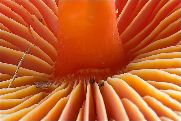 Hygrocybe coccinea (Schaeff.) P. Kumm. Location: Idrijsko, Vojsko Flats, Slovenia Observation Notes: Code: Bot_462/2010_IMG2580 Habitat: In grass, unmaintained mountain pasture, flat terrain, calcareous ground, full sun, exposed to direct rain, average precipitations 2.000-2.600 mm/year, average temperature 6-8 deg C, elevations 1.050 m (3,450 feet), Dinaric phytogeographical region. Substratum: soil Place: Vojsko flats, southeast of Smodin farm house, Idrijsko, Slovenia EC For more information about this, see the observation page at Mushroom Observer.